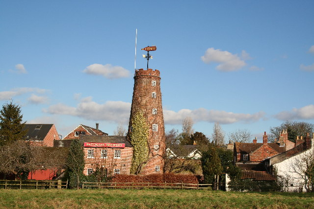 Salem Bridge Mill, Wainfleet. Now part of Bateman's Brewery.